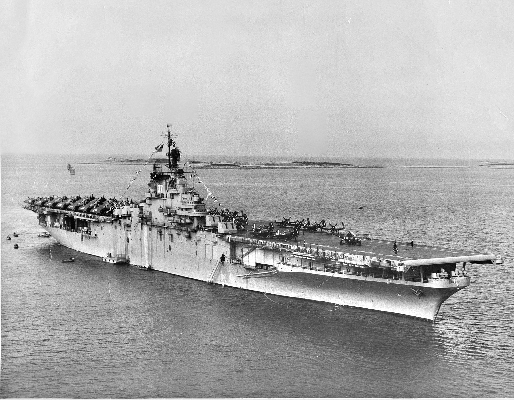 The U.S. Navy aircraft carrier USS Princeton (CV-37) pictured at anchor in Tsingtao, China, with aircraft of Carrier Air Group Thirteen (CVG-13) on the flight deck, circa November 1948. Note that her airgroup was composed only of Grumman F8F-1 Bearcat fighters (VF-131, VF-132) and Grumman TBM-3E/-3Q Avenger bombers (VA-15, VA-135).